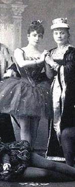 Publicity shot of the original cast of Tchaikovsky's ballet, The Sleeping Beauty, St Petersburg: Mariinsky Theater, 1890. Carlotta Brianza starred as Aurora.